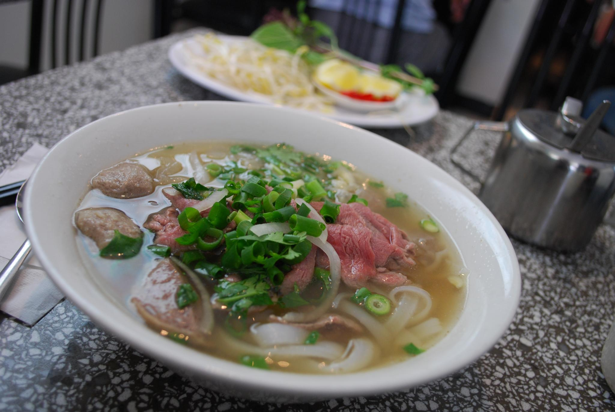 Vietnamese traditional soup pho with rare beef, meatballs, rice noodles herbs etc.